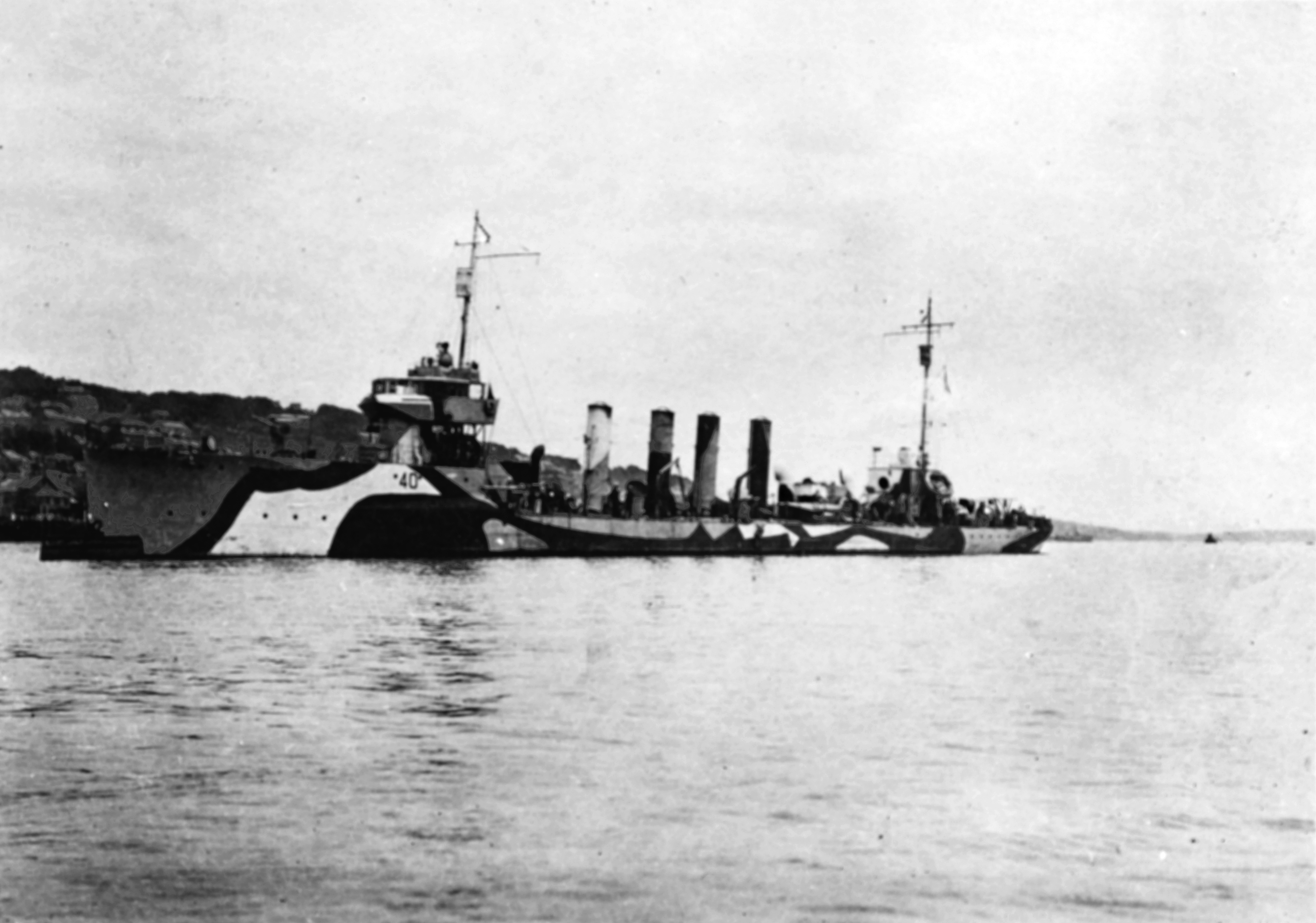 The U.S. Navy destroyer USS Beale (DD-40) moored to a bouy at Queenstown, Ireland, in 1918. She is painted in pattern camouflage.